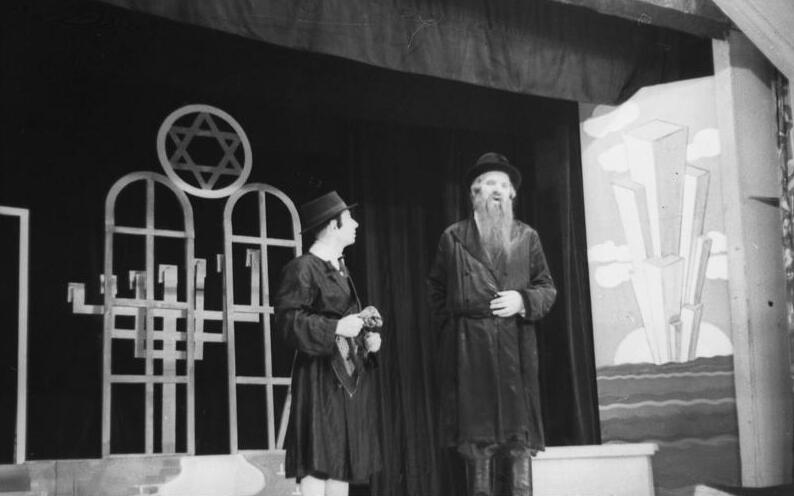 Warsaw Ghetto: Theater "El Dorado" at Dzielna 1 street near Zamenhof street showing comedy by Z. Kalmanowicz titled "Rywkełe dem rebns". Premiere on May 2 1941. Cast below.